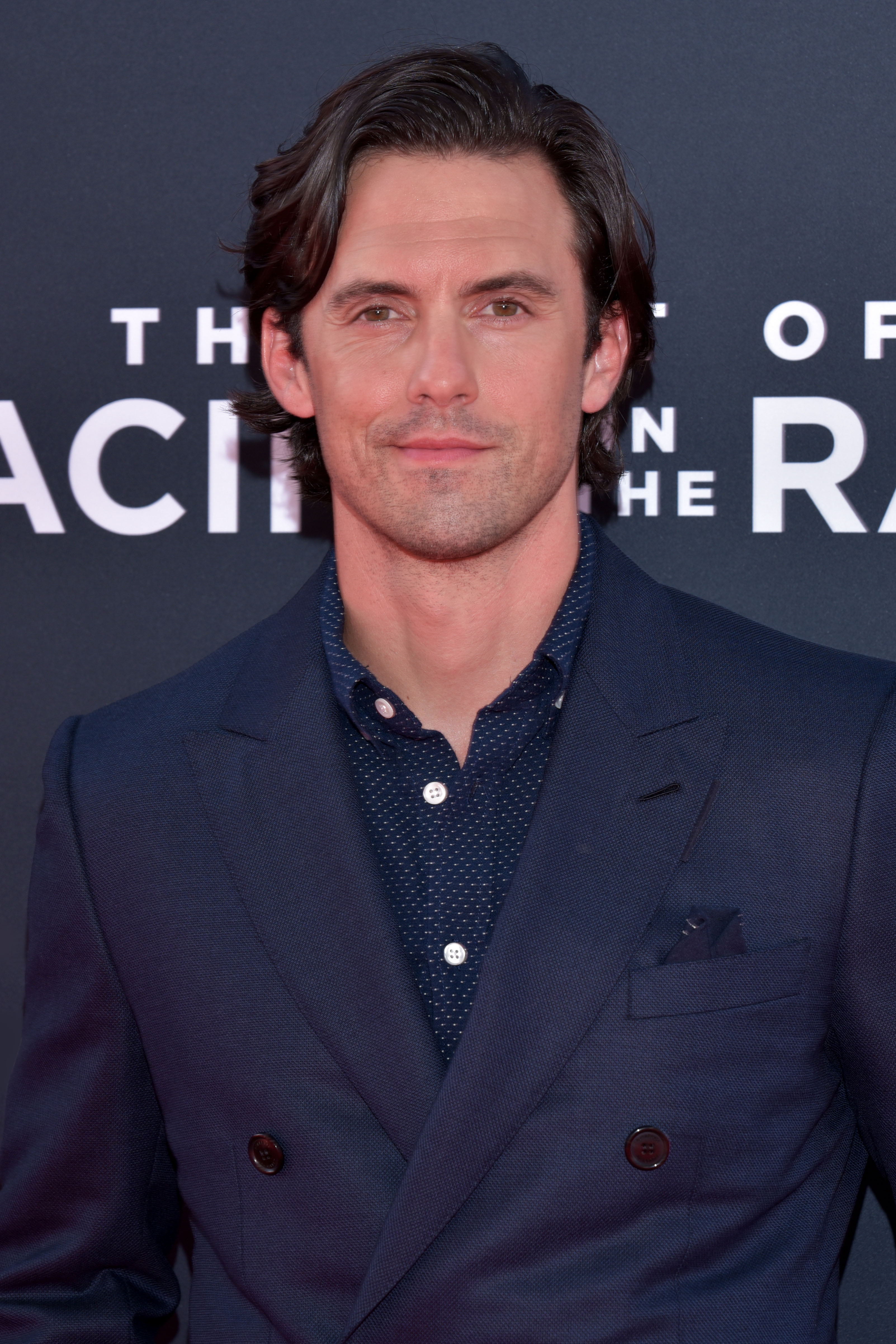 Milo Ventimiglia at the premiere of "The Art of Racing In The Rain" in Hollywood California August 2019